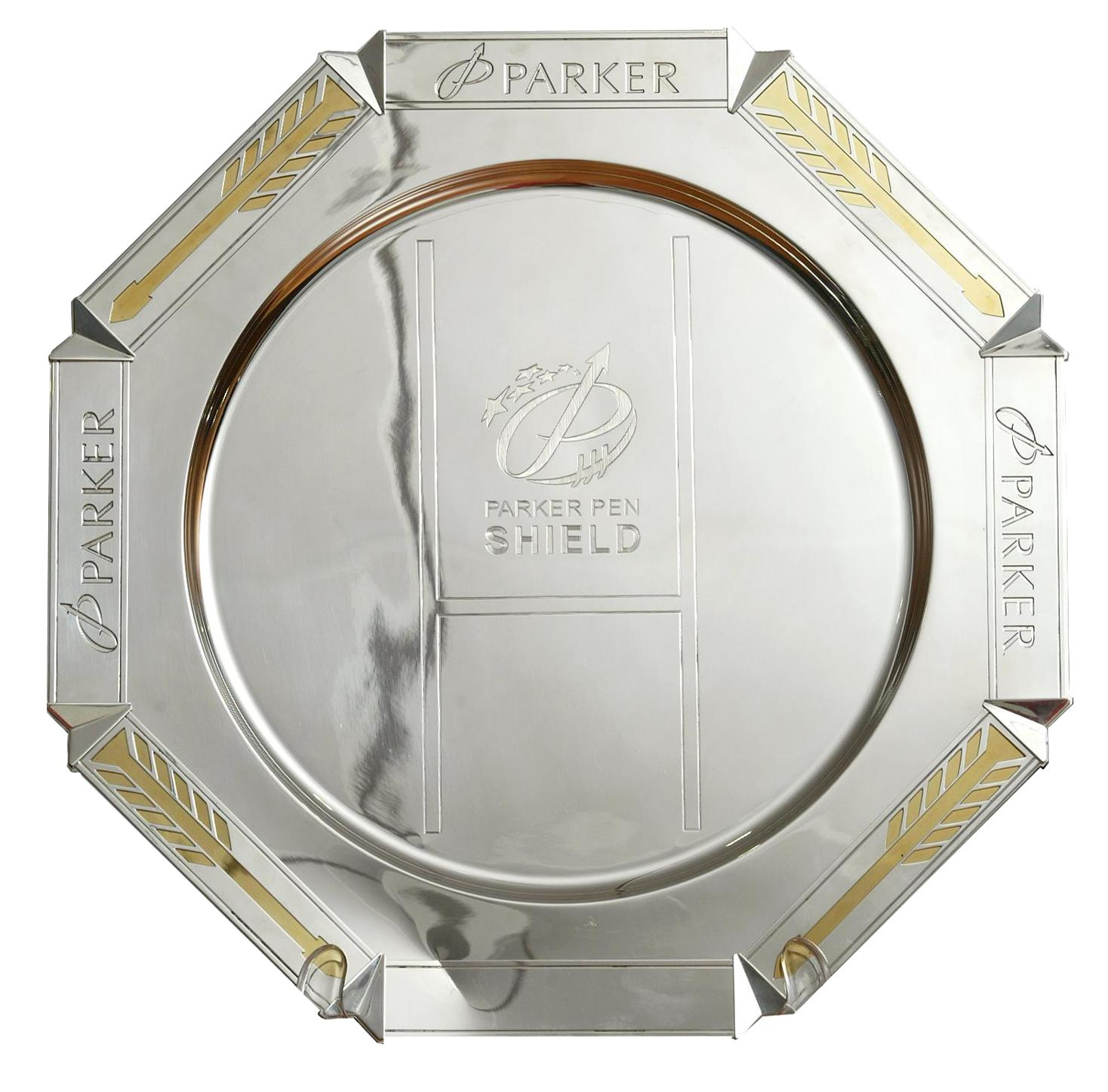 Bouclier Européen Parken Pen Shield